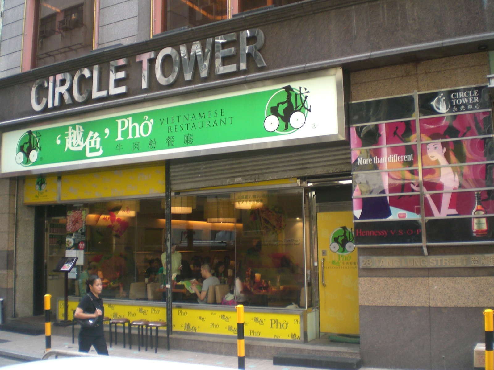 銅鑼灣登龍街